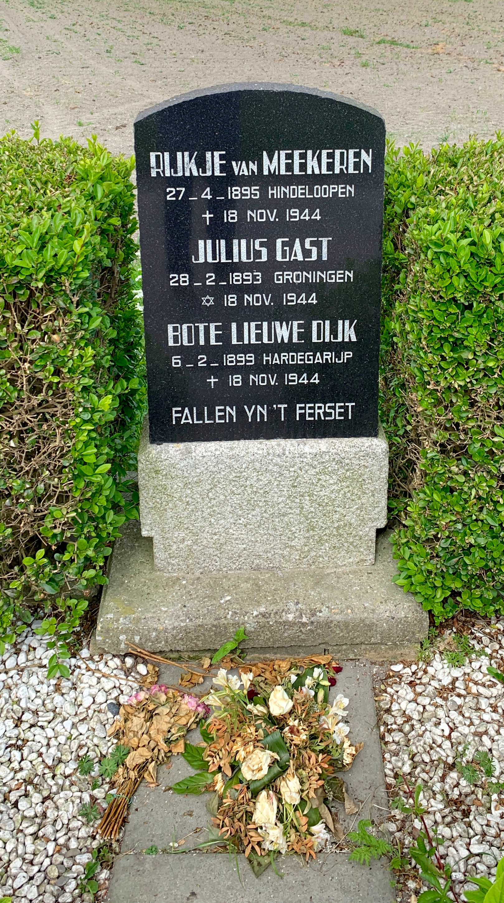 Resistance monument, civilian casualties, persecuted the Netherlands, resistance the Netherlands